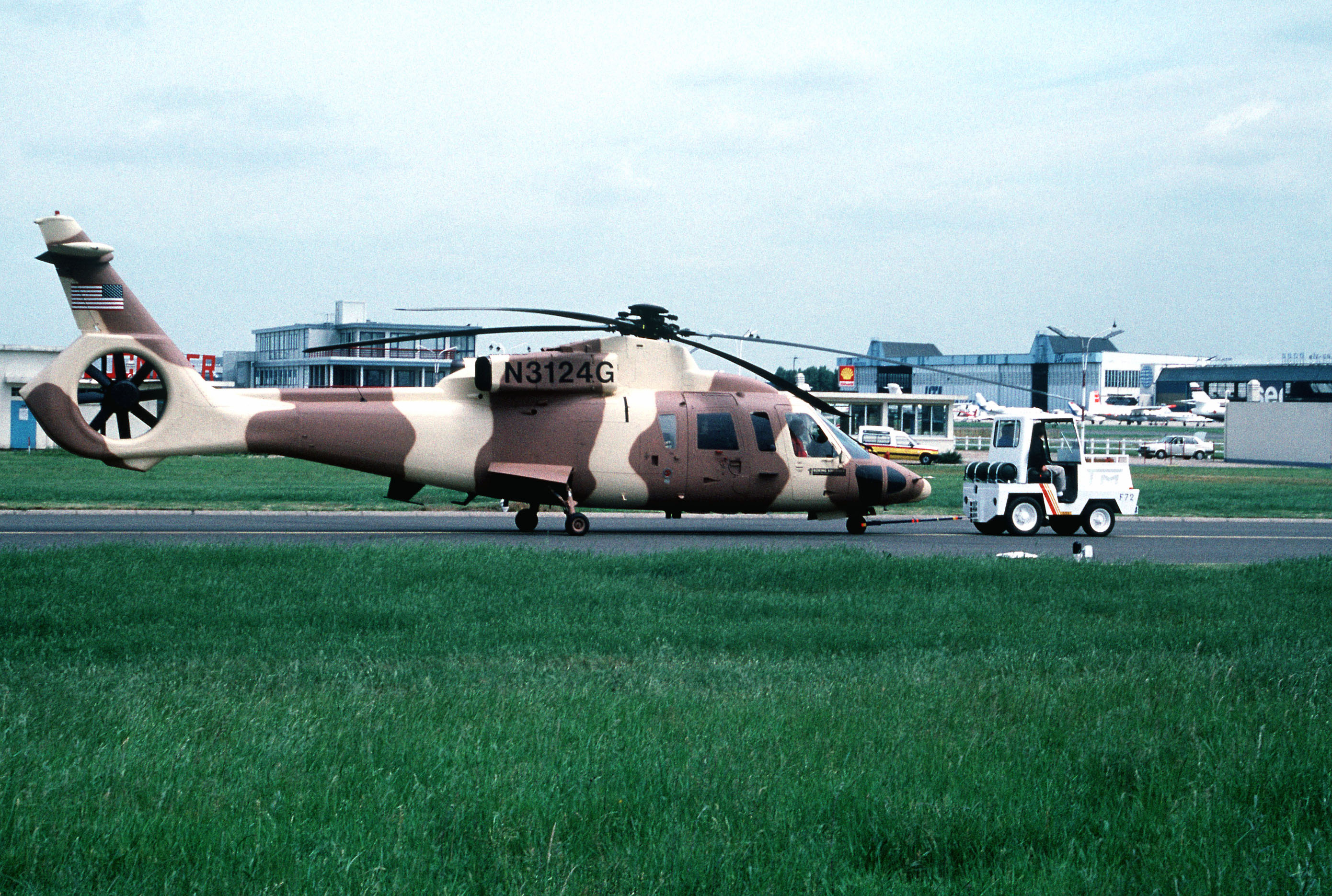 A S-76B prototype helicopter, produced by Boeing Helicopters and Sikorsky Aircraft, is pulled along a taxiway during the 1991 Paris Air Show in France. It has been modified as a fantail demonstrator for the Boeing-Sikorsky RAH-66 Comanche program.